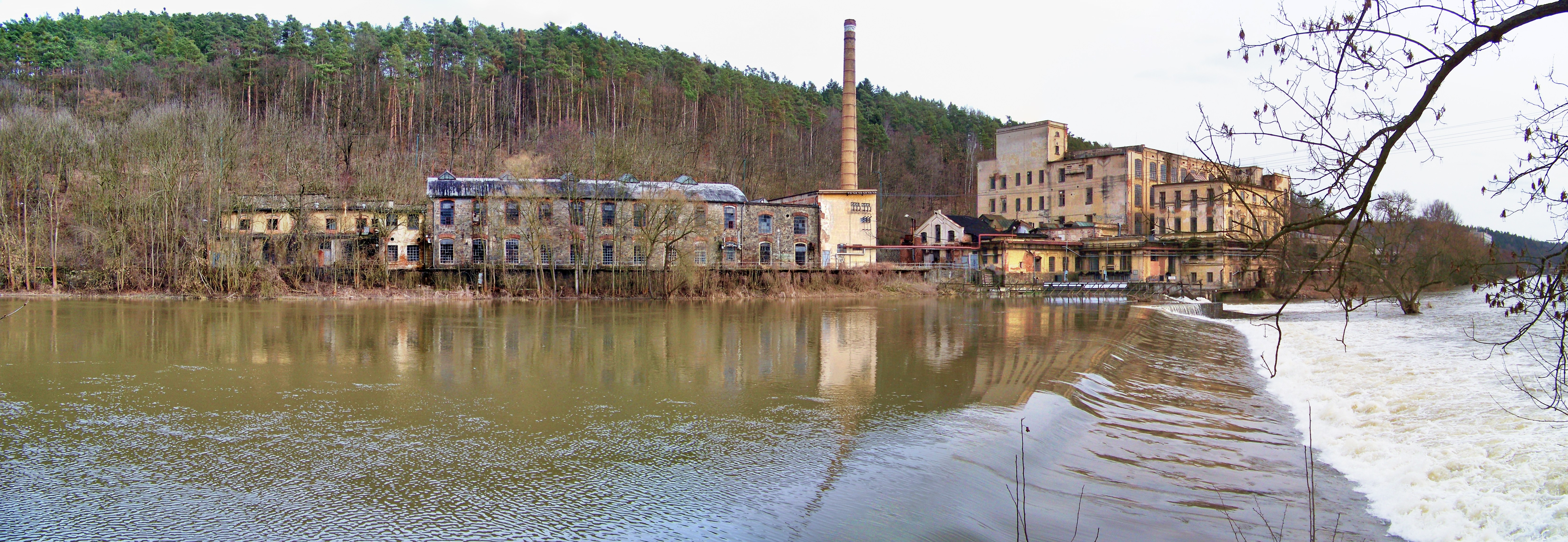 Týnec nad Sázavou, the Czech Republic. The old Jawa factory.